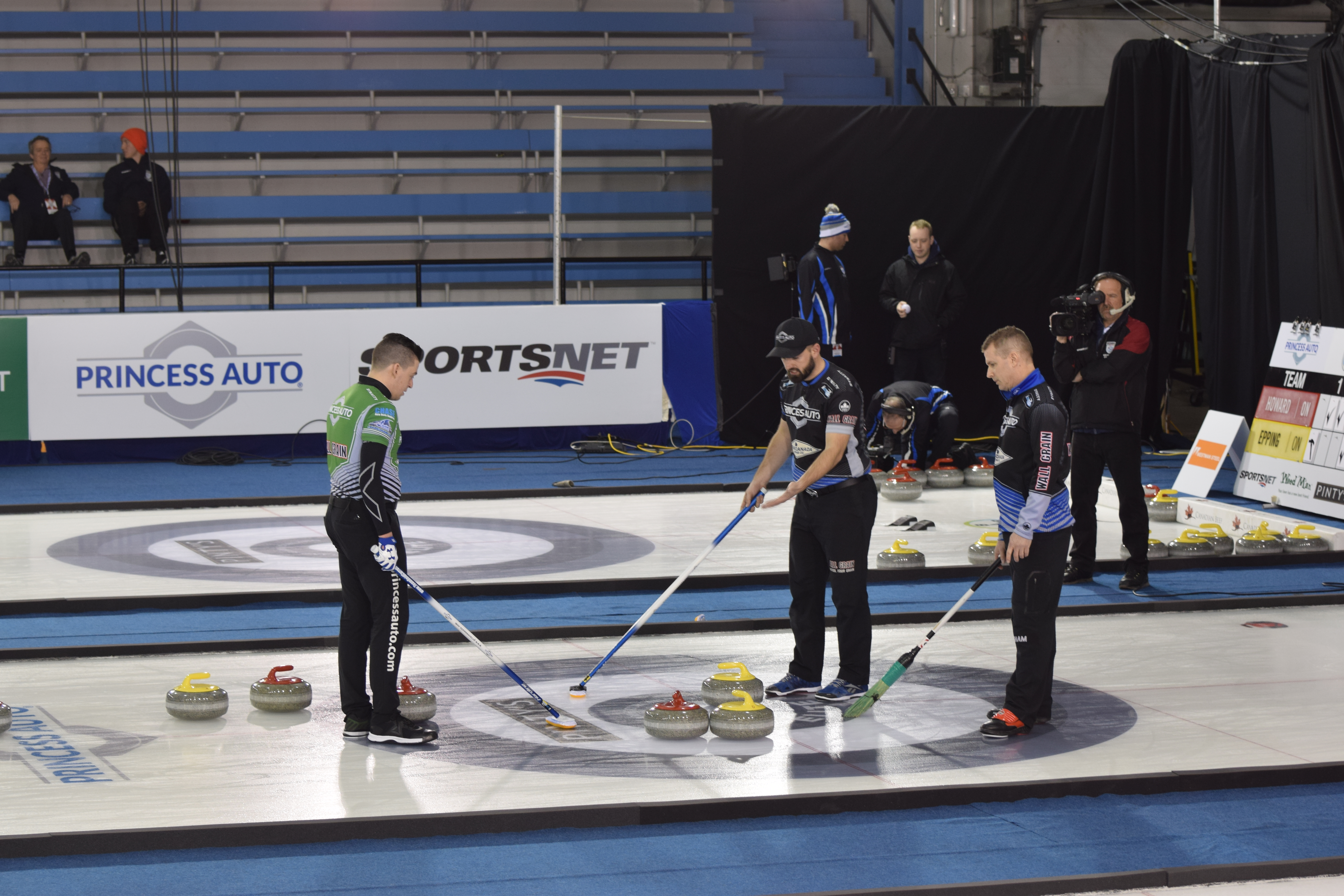 Hodgson, Carruthers, Stoughton discuss a shot at the 2018 Elite 10 Grand Slam of Curling event.